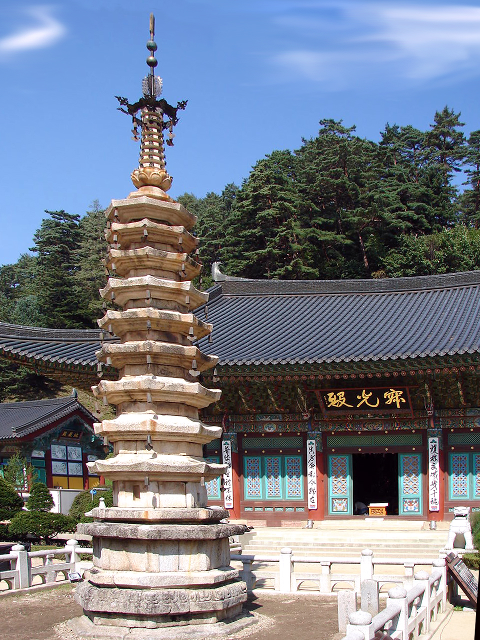 Woljeongsa Octagonal Nine Story Pagoda, called the Sari-pagoda (relic pagoda), is believed to have been constructed in the 10th century. 'Woljeonsa'a Octagonal Nine-Story Pagoda is a multi-angled stone pagoda standing 15.2 meters/50 foot high and is representative of the multi-storied pagodas popular during the Goryo Period, especially in the northern regions of Korea. The presently exposed stone base is not the original. The original base is now below the surface. A flat stone base has been laid over the original base and is carved with lotus flowers and other images. Pillars are delicately carved into each corner of the upper face of the stone. The shape of the first tier and the door-frame images on all sides of the stone body along with the horizontal roof stone is representative of the Goryeo Period. The roof and body stone structure of the nine stories gives this pagoda a feeling of stability. The thin body, curved corners, door-frame on the lower body and the variations in the octagonal shape illustrate the unique and aristocratic characteristics of the Goryeo era Buddhist culture. Woljeonsa'a Octagonal Nine-Story Pagoda is National Treasure number 48.